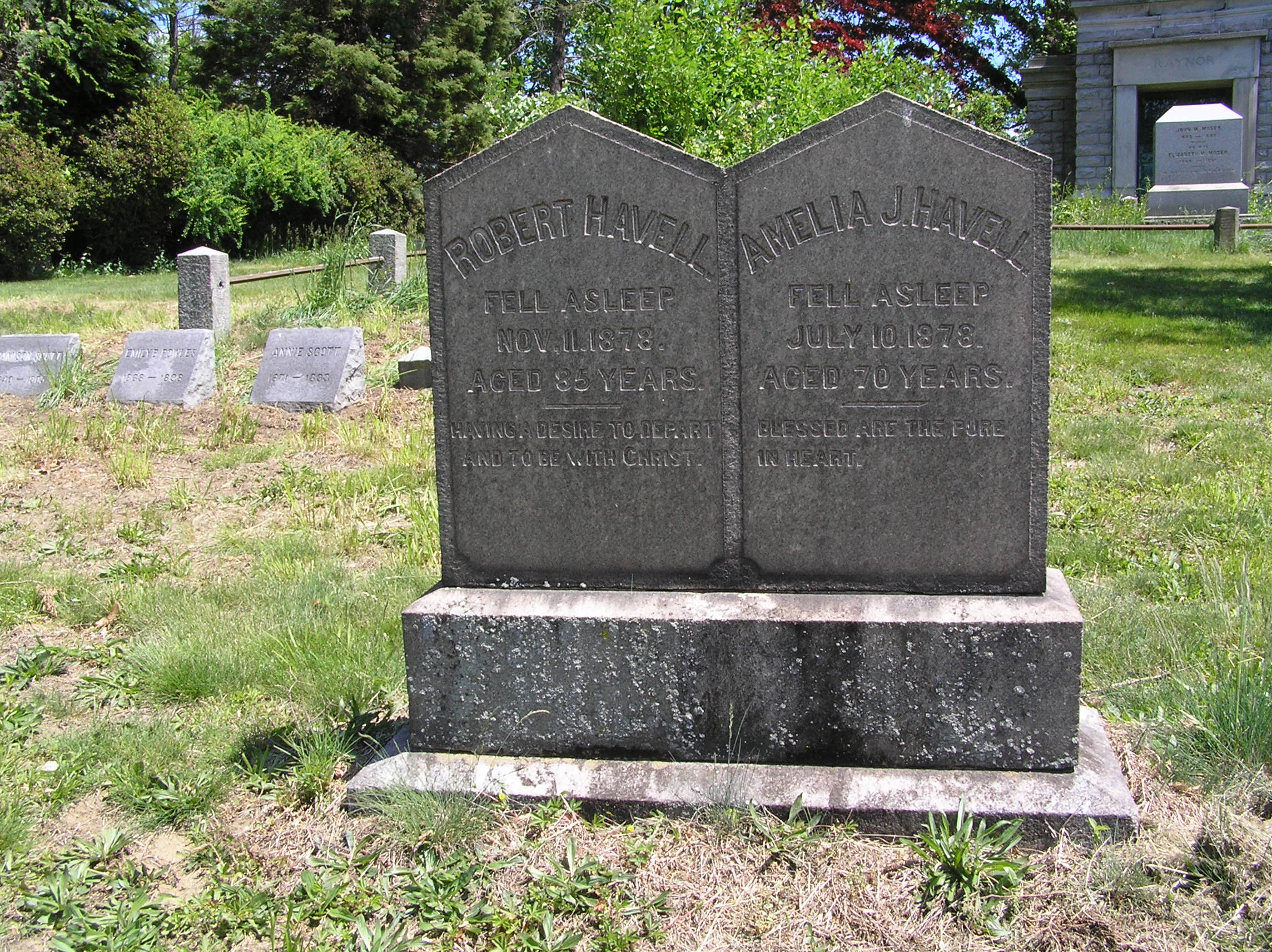 The gravesite of Robert Havell, Jr. in Sleepy Hollow Cemetery